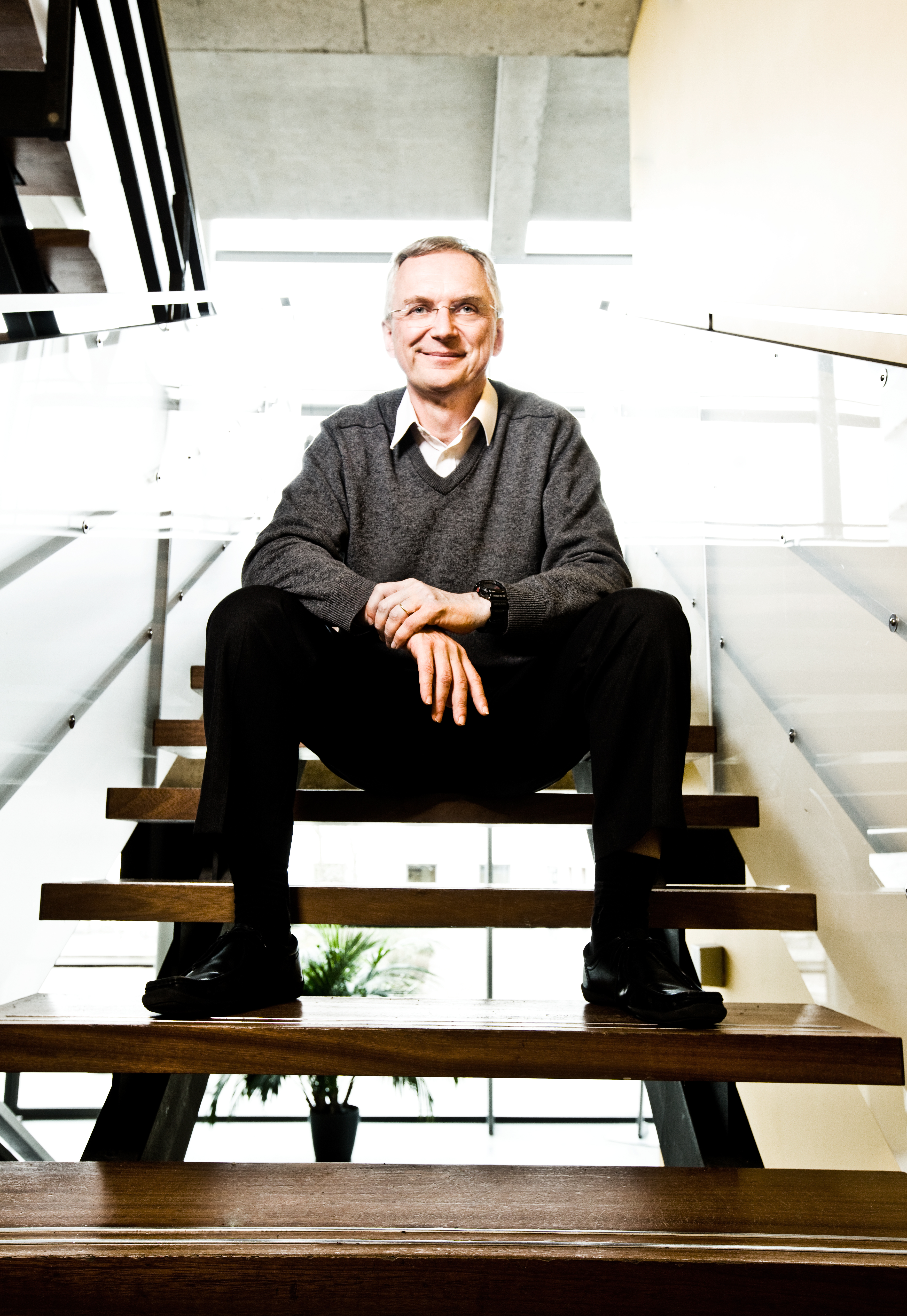 Andy Hopper sitting on stairs in the University of Cambridge Computer Laboratory.